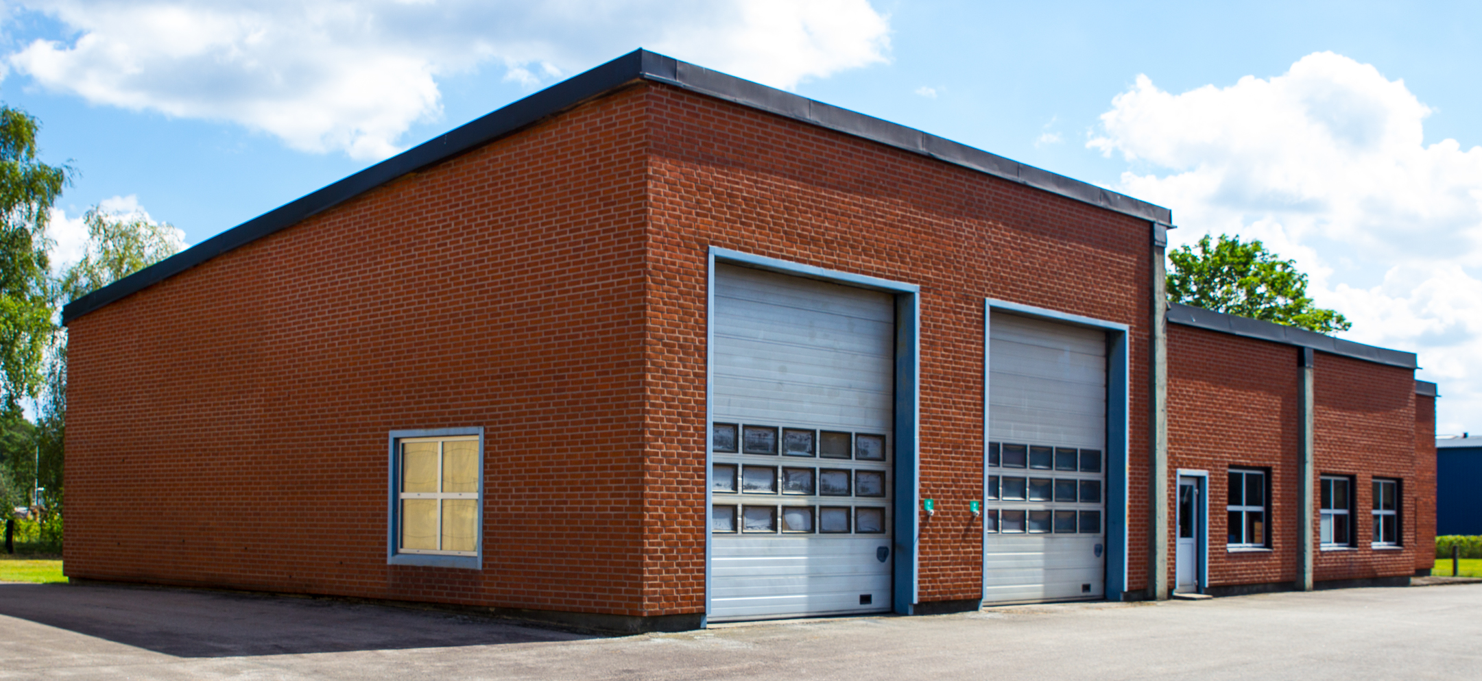 Klevshults mechanical factory